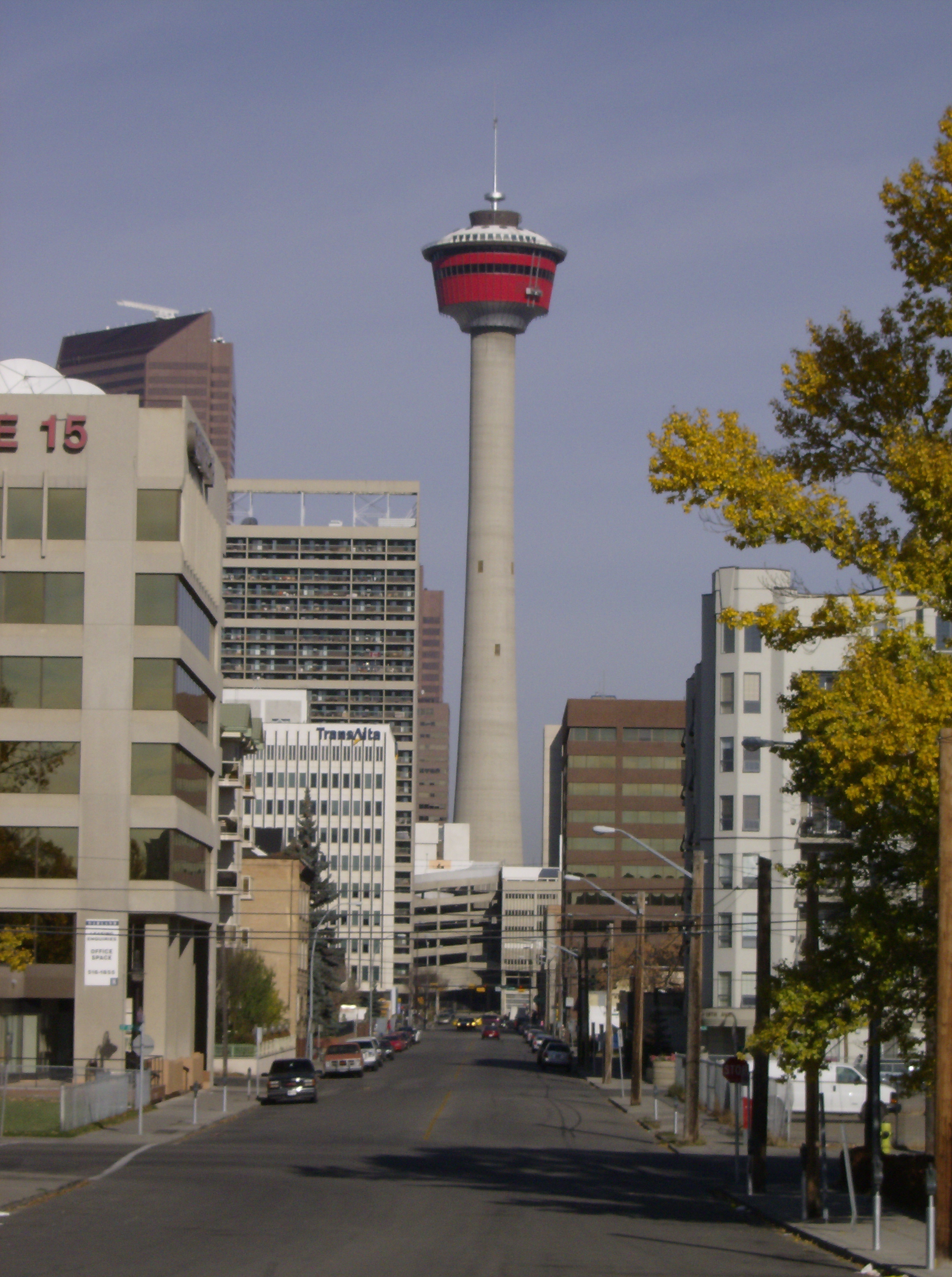 Calgary Tower in Calgary, Alberta, Canada. This shows the "rear" of the tower, the photographer is on the South side, facing North, looking down Centre S.